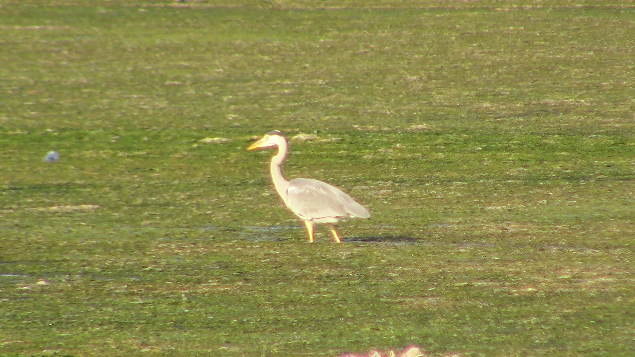 Sidi Moussa Lagoon Nature Preserve - View